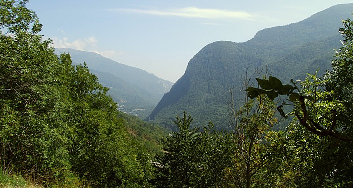 Val Chisone seen from Fenestrelle Picture taken and edited by user Idefix september 2006